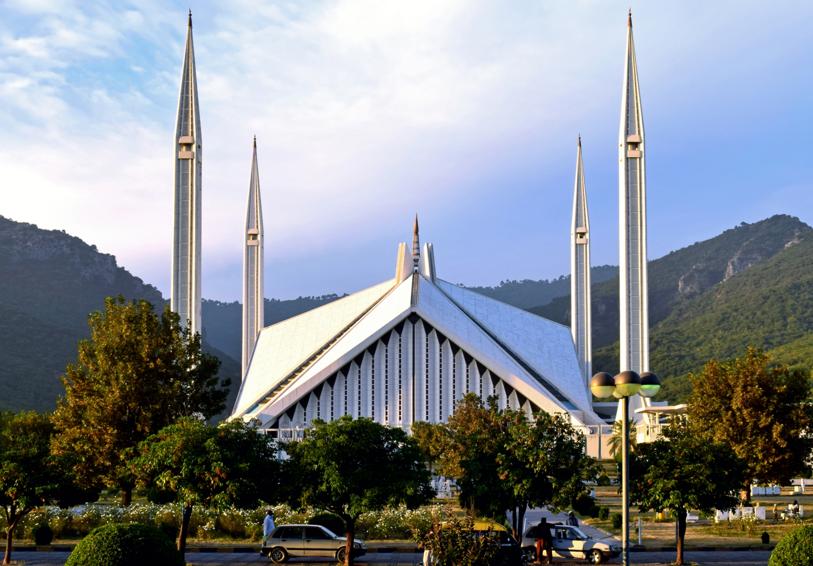 Faisal Mosque with the majestic Margalla Hills in the background. © Ali Mujtaba Photography 2014 This is a photo of a monument in Pakistan identified as the ICT-5